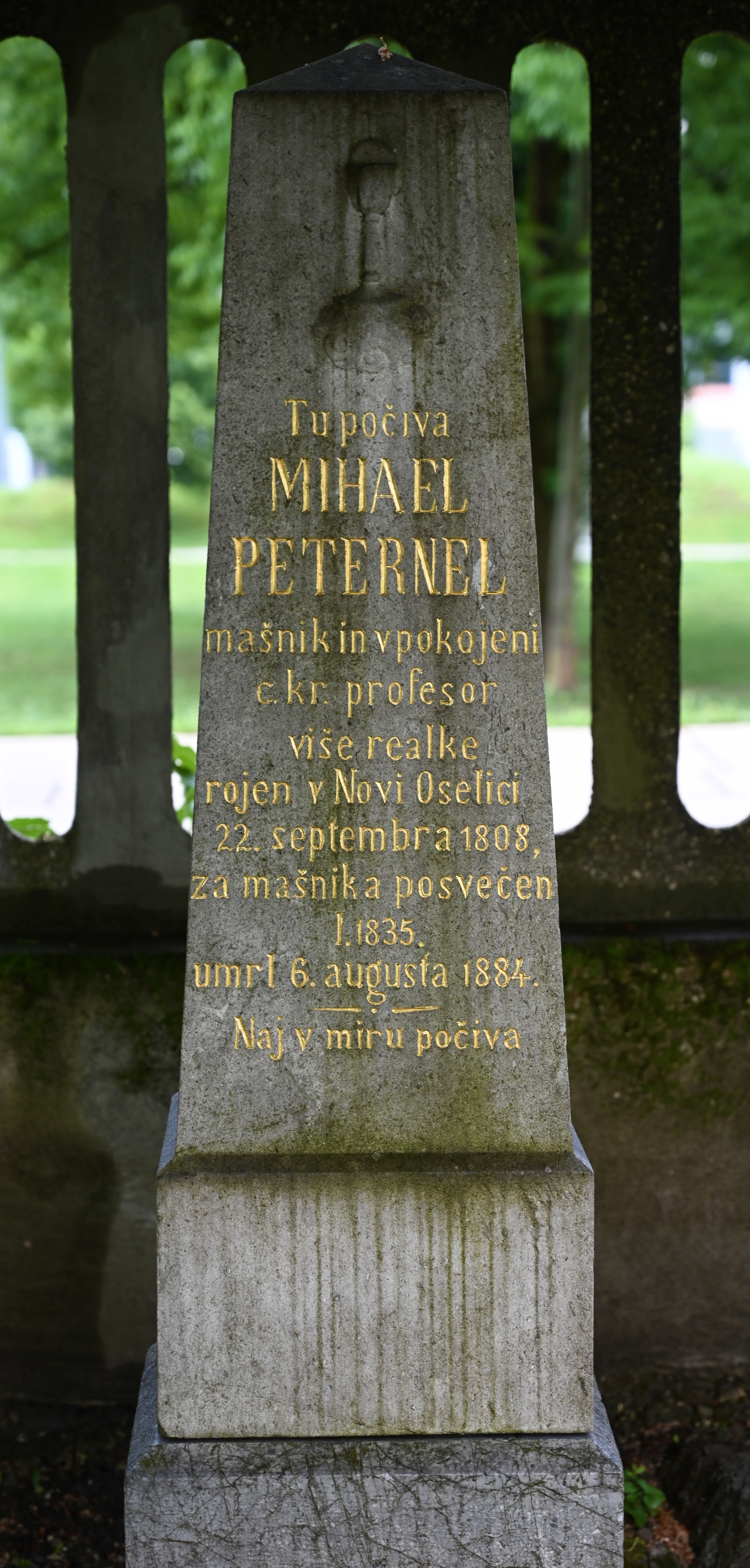 Tombstone of Mihael Peternel, a priest and author, at Navje in Ljubljana